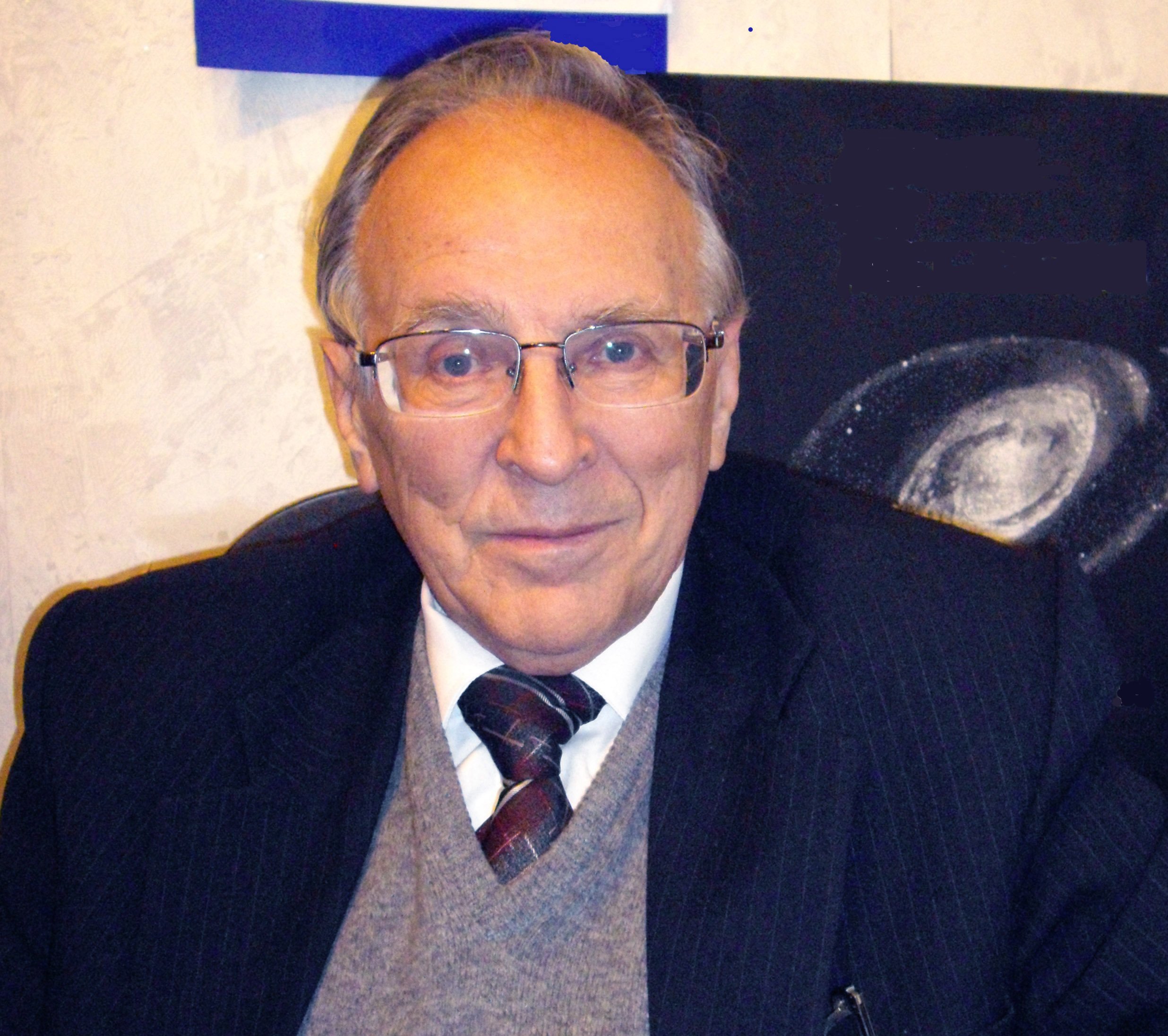 Dmitry Alexandrovich Varshalovich (1934—2020), academician of the Russian Academy of Sciences, astrophysicist.